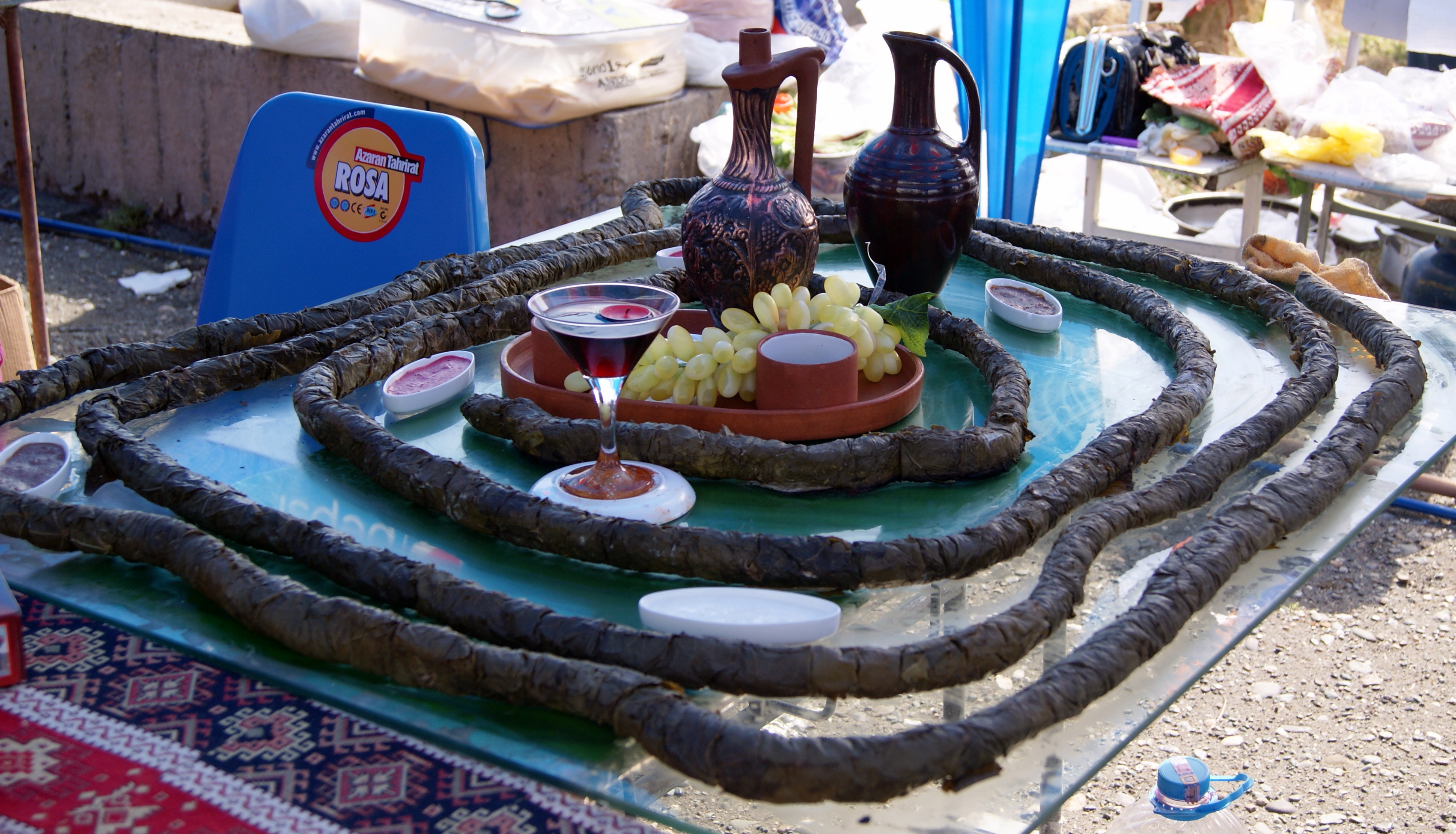 "Oudoulie" dolma festival, Armenia, Musa Ler